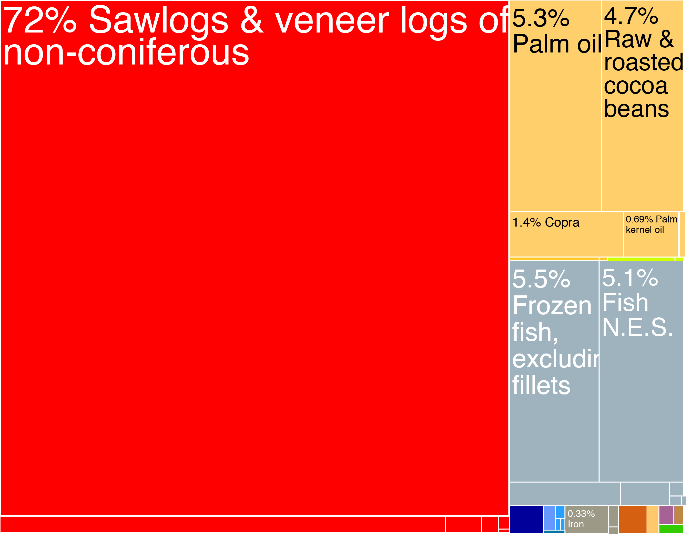 Exports of Solomon Islands Treemap. Year 2009